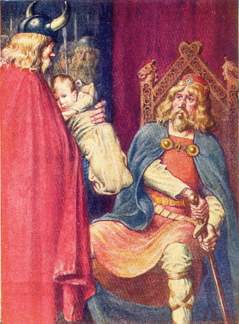 Harald Fairhair sends his son to king Athelstan. A foster parent was usually of lower rank than the real father, so by doing this, Harald indicated his own status.